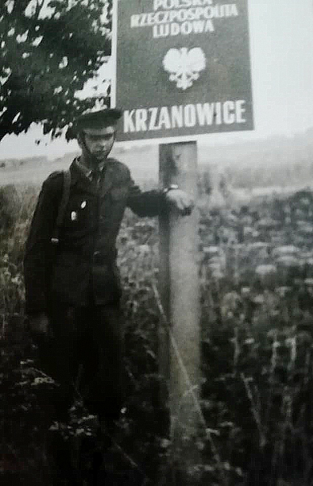 Border Protection Forces in Krzanowice